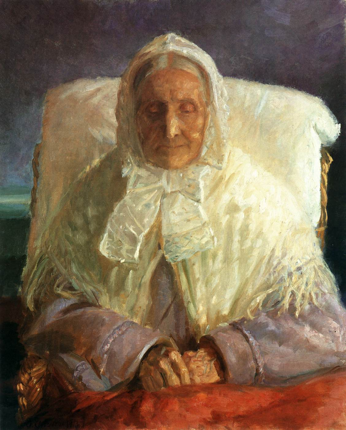 The Artist’s MotherDansk: Portræt af mor